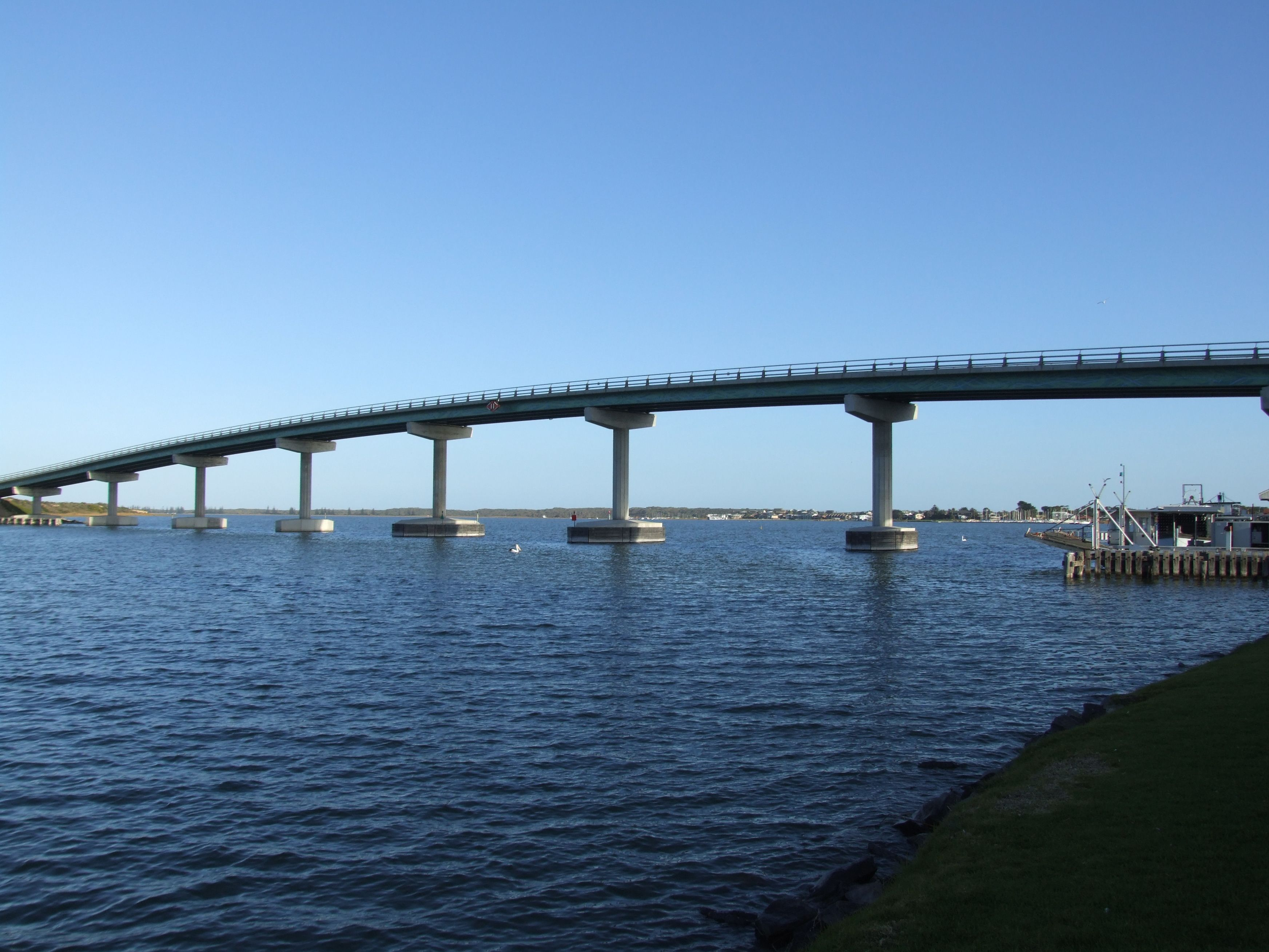 Image title: Bridge over the Murray river Image from Public domain images website